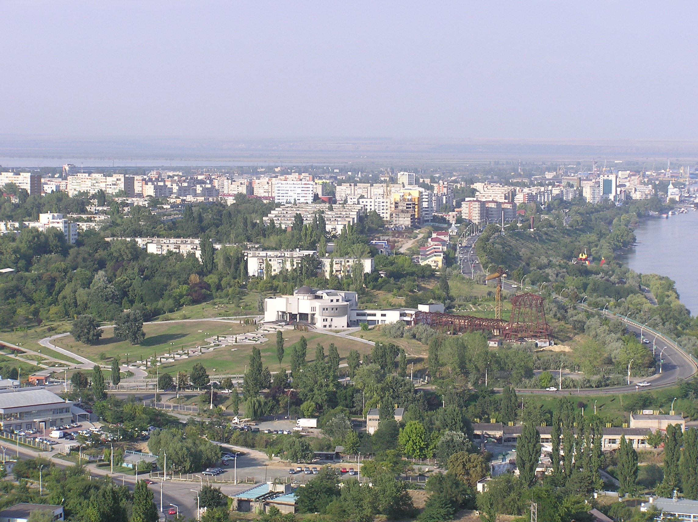 View of Galati from the TV tower